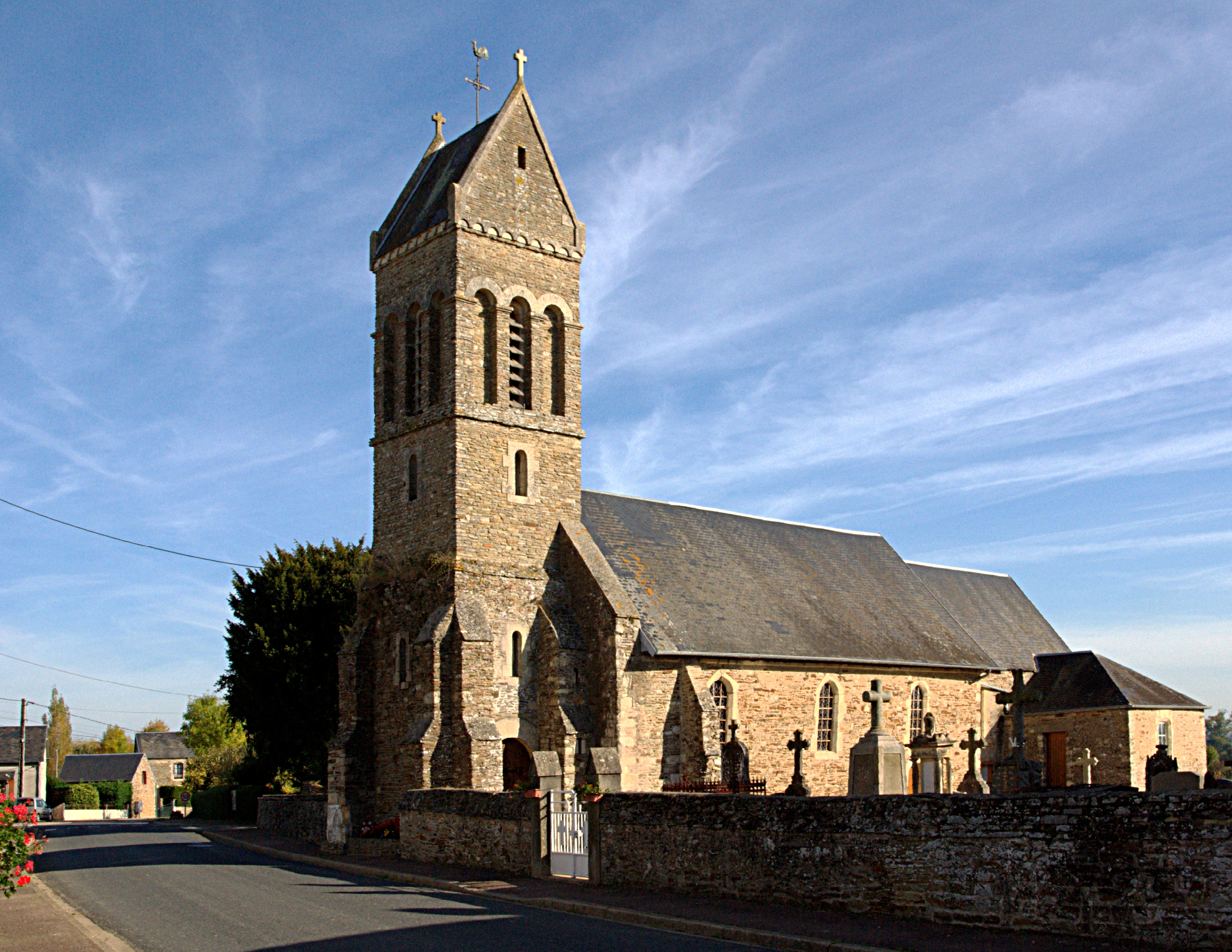 On Anctoville, Church's Feugeurolles-sur-Seulles, Calvados, French.